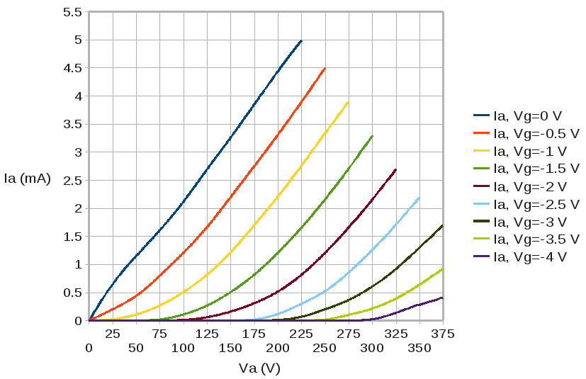 Voltage-current characteristic of triode ECC83. Data from ECC83 Phillips datasheet was used.